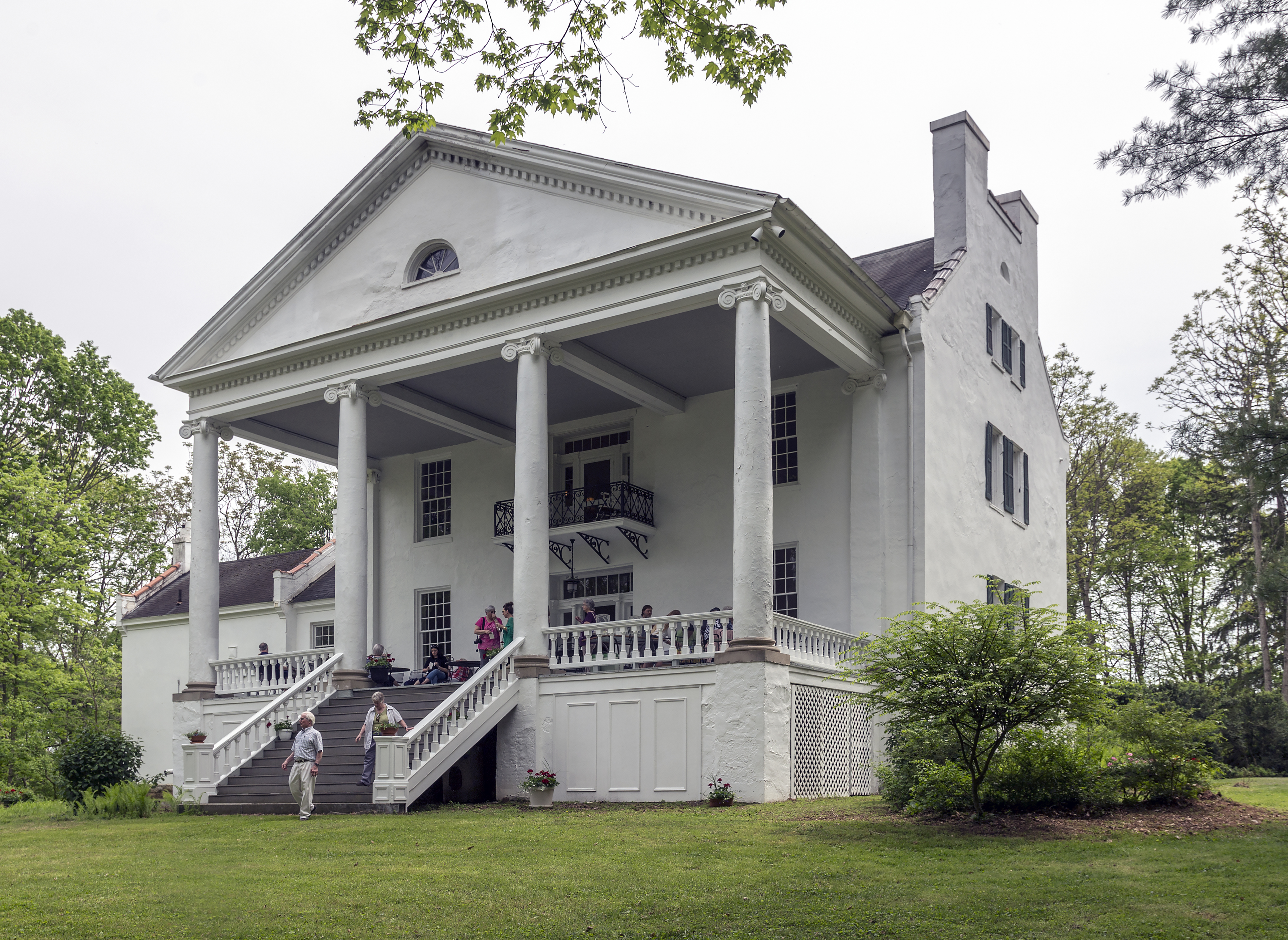 Falling Spring-Morgan's Grove, Shepherdstown, West Virginia, USA. Front elevation.